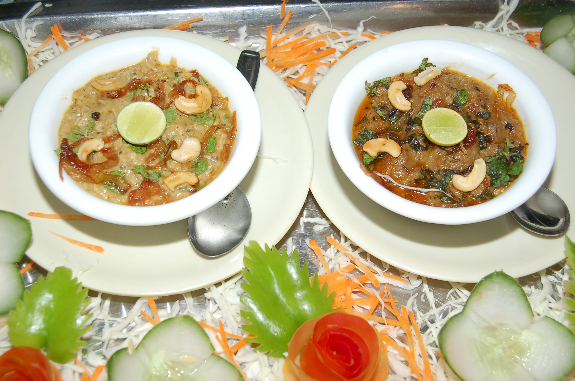 Haleem is made of wheat, barley, meat (usually beef or mutton, but sometimes chicken or minced meat), lentils and spices. This dish is slow cooked for seven to eight hours, which results in a paste-like consistency, blending the flavors of spices, meat, barley and wheat.